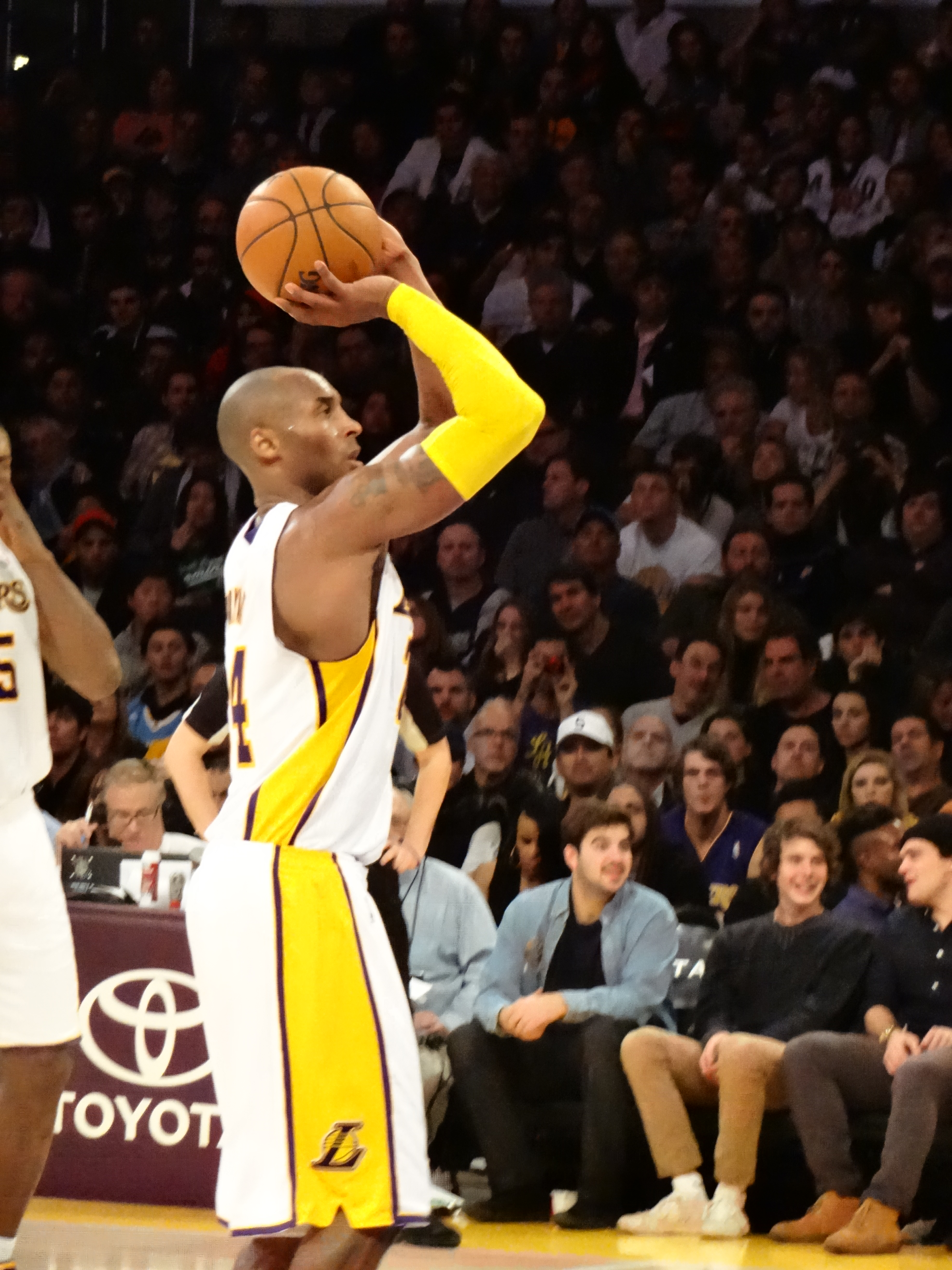 Los Angeles Lakers vs Denver Nuggets at the Staples Center. Kobe Bryant takes a free throw.